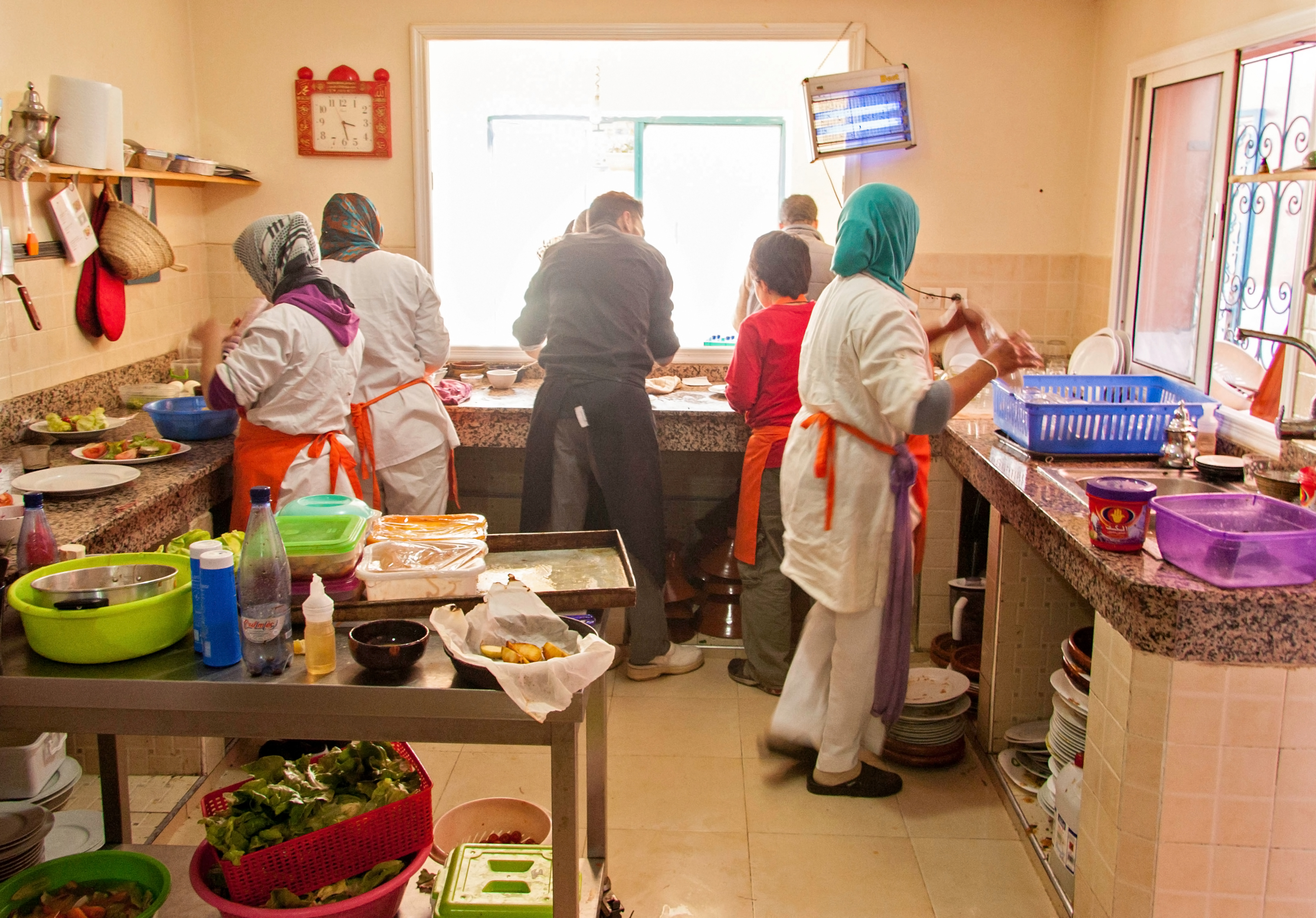 Amal Women's Training Center and Moroccan Restaurant trainees preparing lunch with staff chef in the kitchen